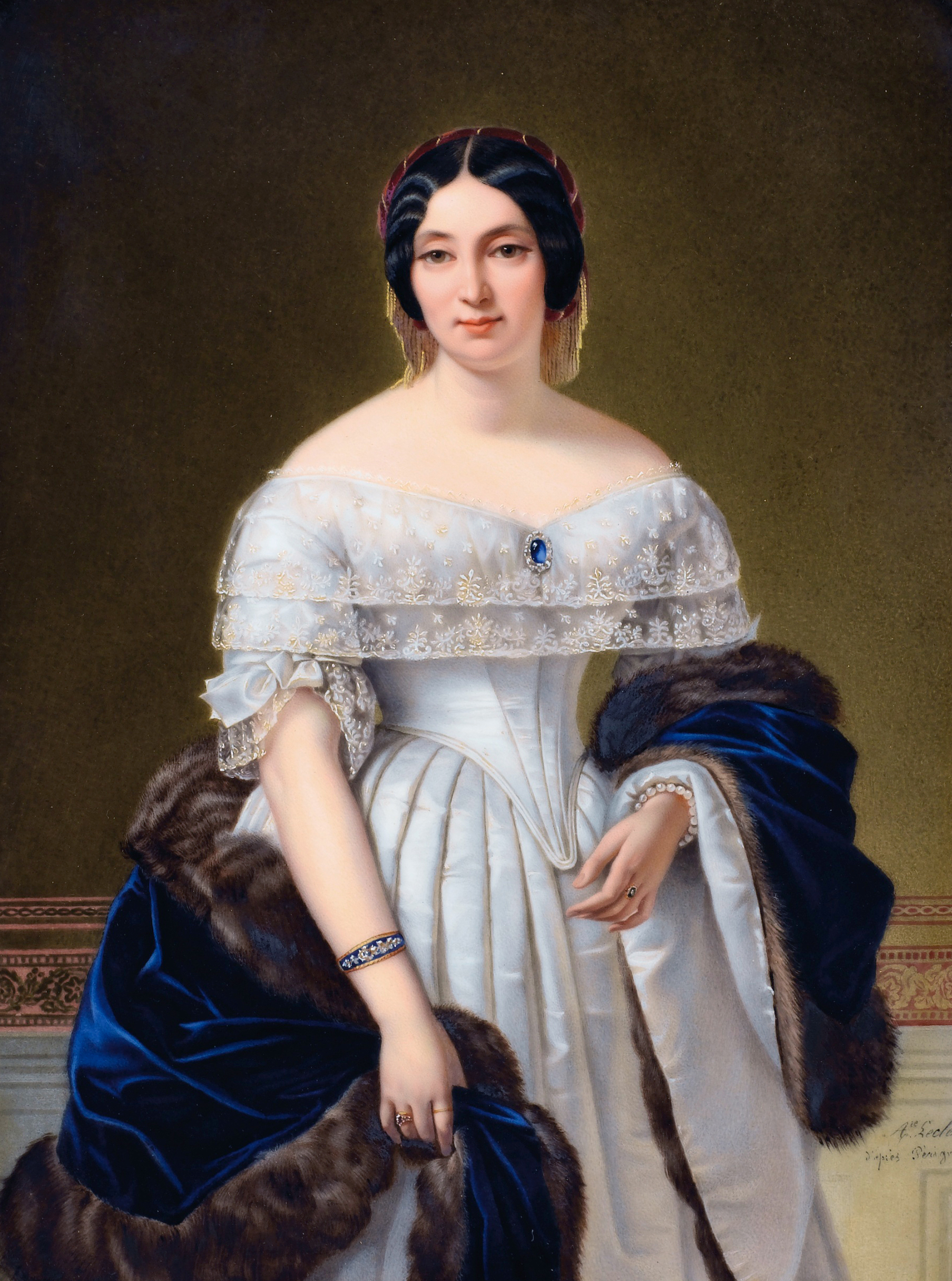 Jeanne Arnould-Plessy signed l.r.: Are Leclerc / d'aprés Pérignon 28 x 20 cm polychrome on porcelain